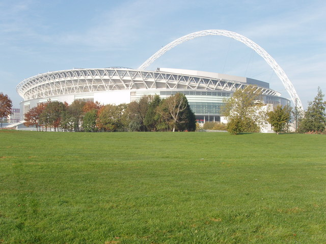 Wembley Stadium, almost ready for use. View from Sherrans Farm Open Space. Compare with 16167 taken from the same area in June 2005, with construction cranes.